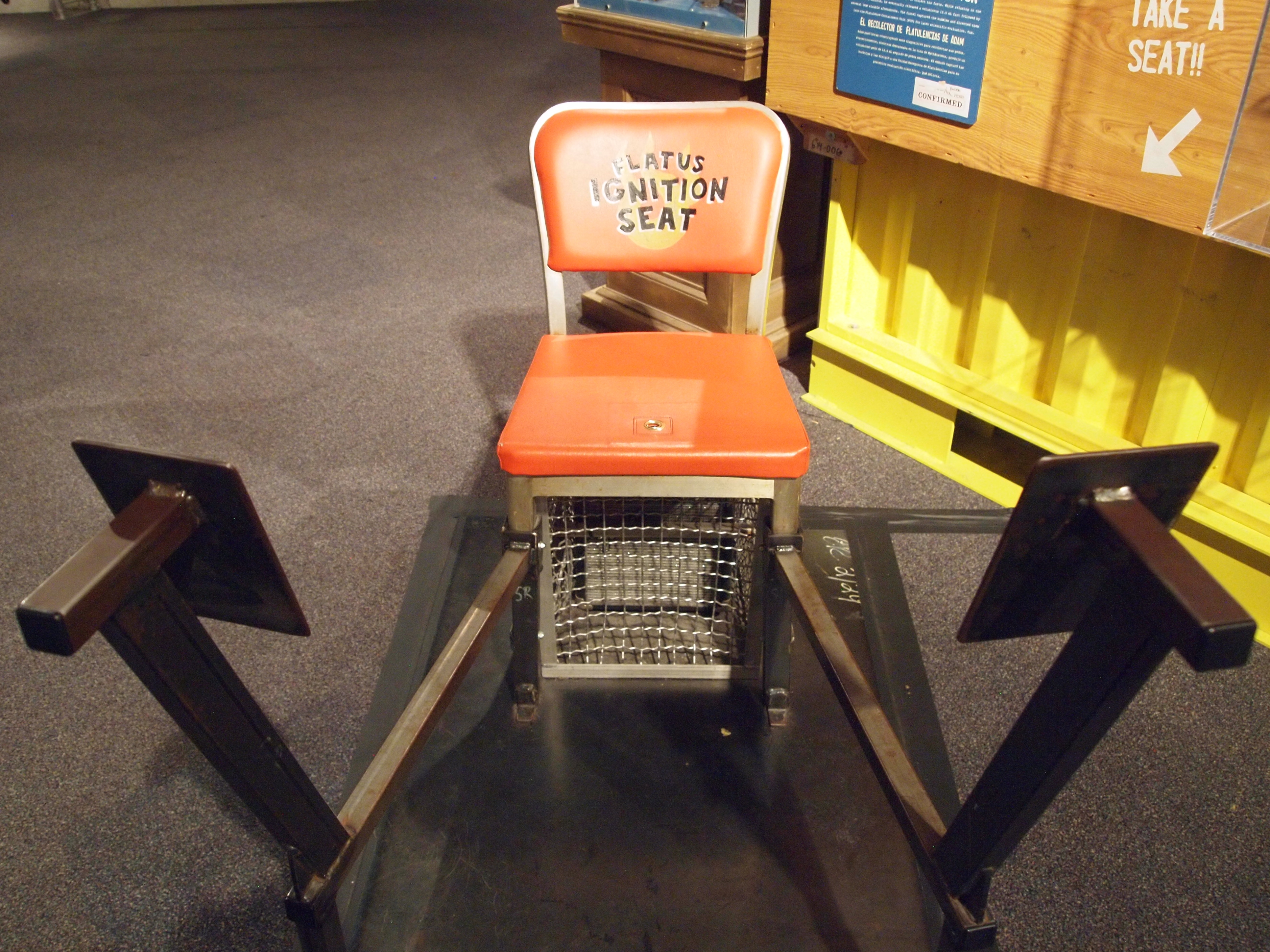 MythBusters Flatus Burning